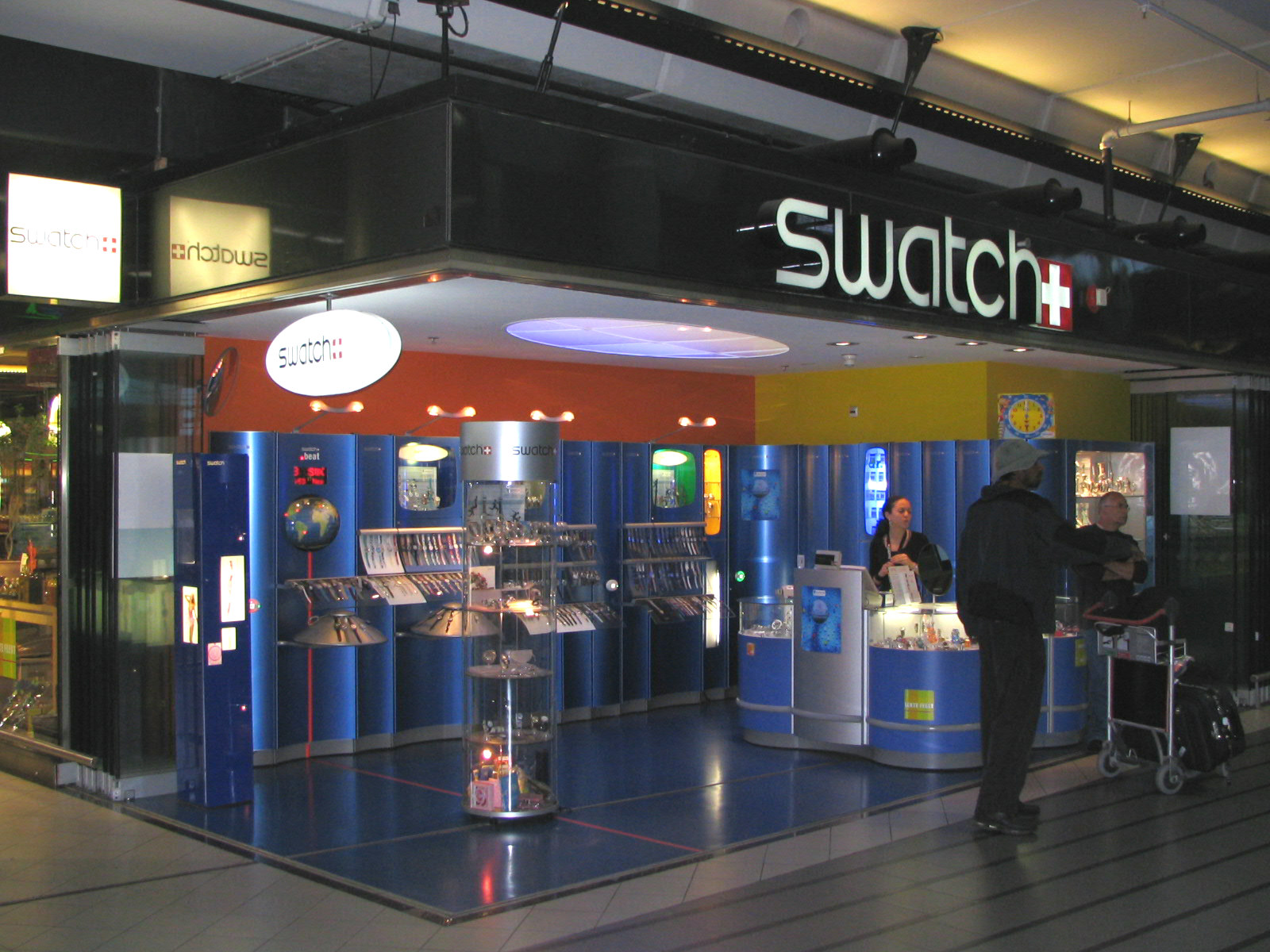 A Swatch kiosk.